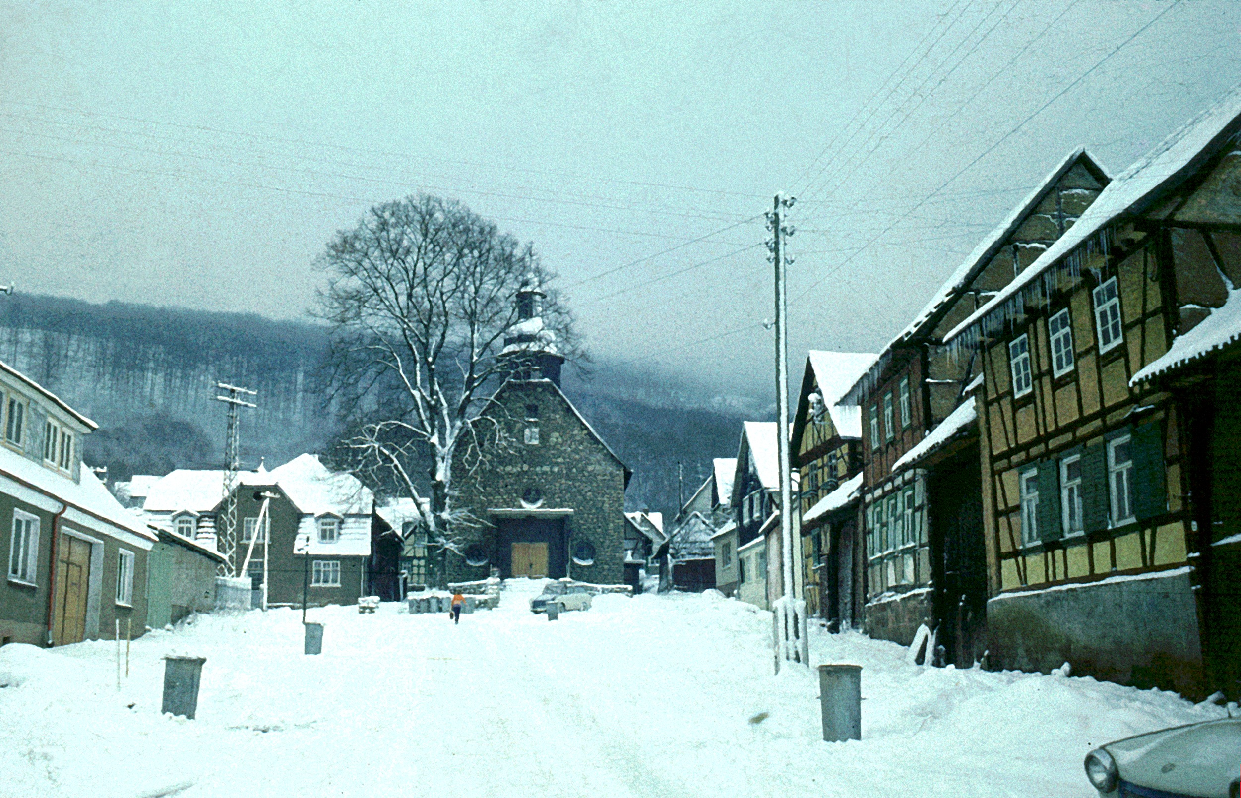 Vollenborn (Deuna), view from the Hauptstraße to the village church